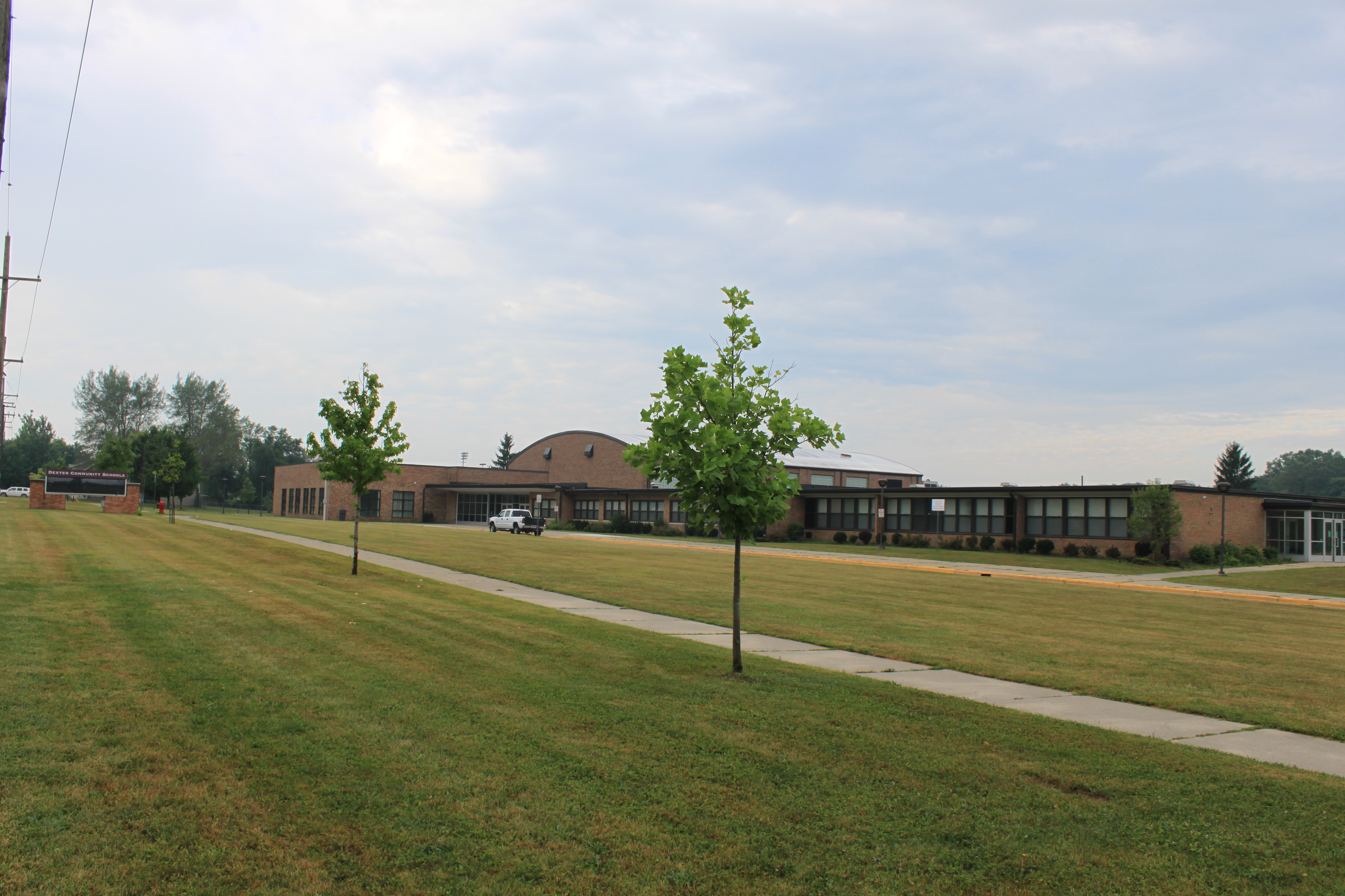 Creekside Intermediate School, Dexter Michigan, 3060 Kensington, viewed from Baker Road.